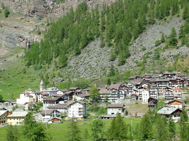 Overview of Déjoz, Valsavarenche (Aosta Valley, Italy)